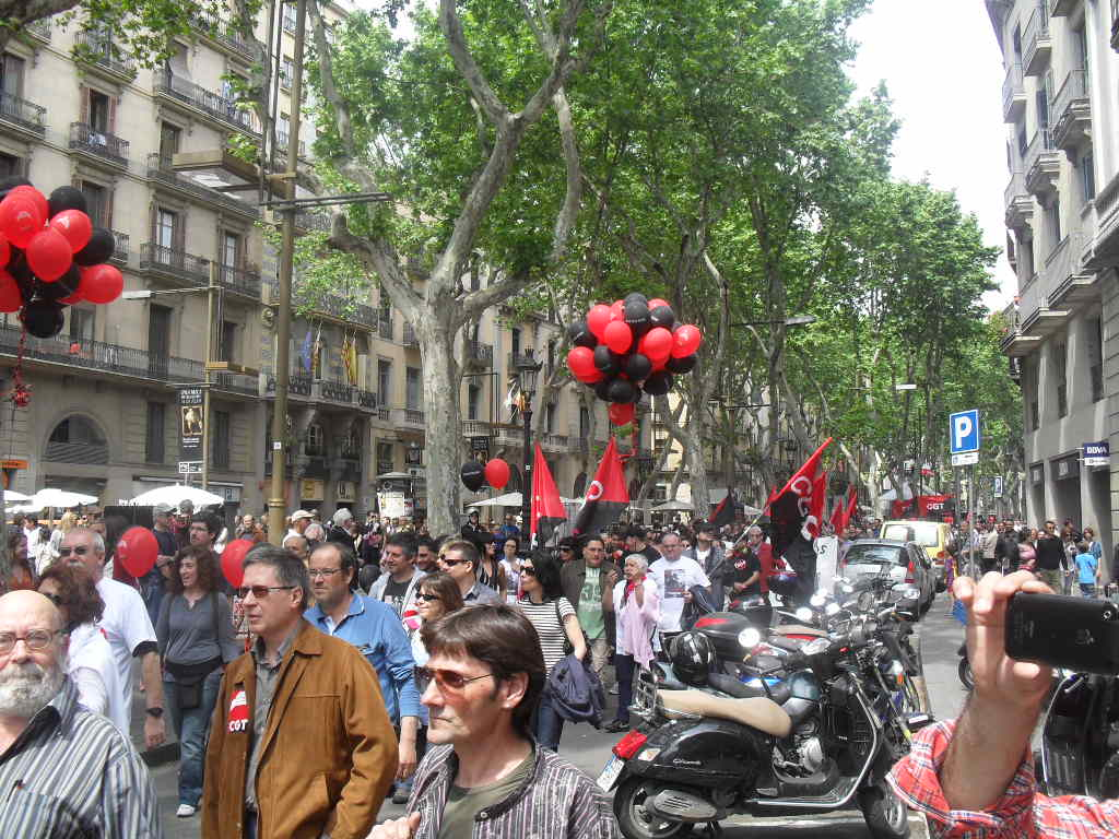 Las Ramblas de Barcelona 1 maig 2011